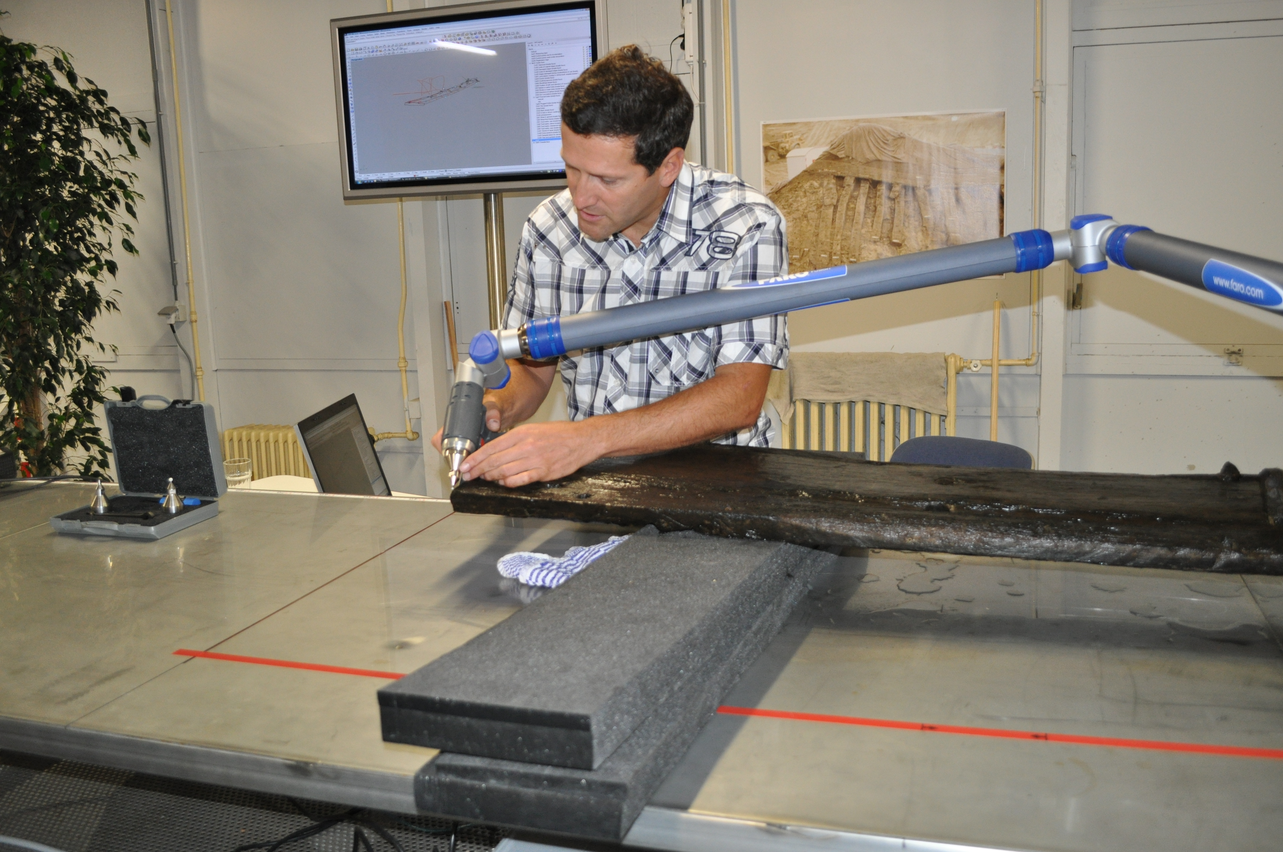 Research of archeological wood with Faro arm